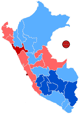 Geographic distribution of 2nd round votes in Peru's 2006 presidential election. Based on and adapted from Image:Elecciones Presidenciales 2006 (Perú, 1ª vuelta).png and Image:Segunda Elección Presidencial 2006 (Perú).png, quantitative data available at [1].